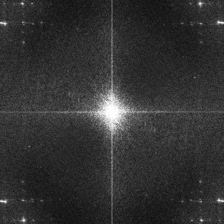 Two-dimensional Fast Fourier Transform of Image:Mona Lisa bw square.jpeg. Used to show the effect of FFT on an image